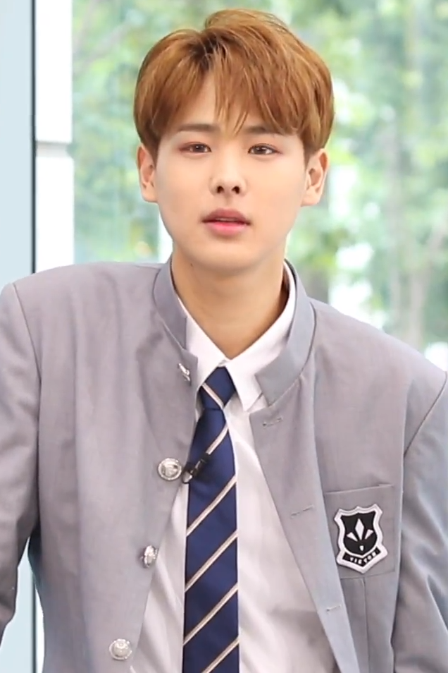 180529 tbs Fact in Star - VICTON